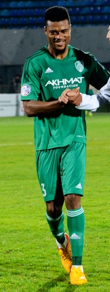 Adolphe Teikeu